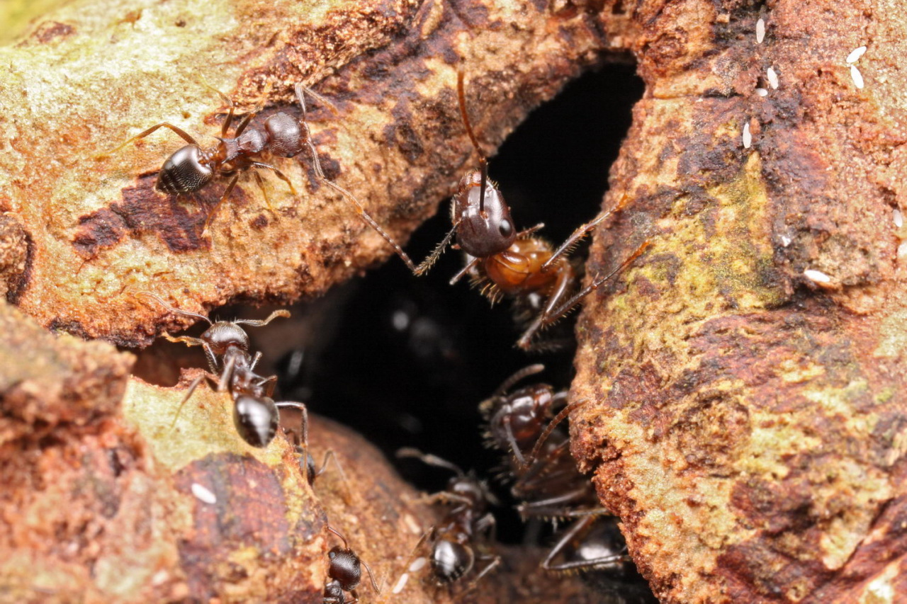 Shattuck_53813, Crematogaster modiglianii and Camponotus rufifemur parabiosis, Danum Valley, Sabah-web